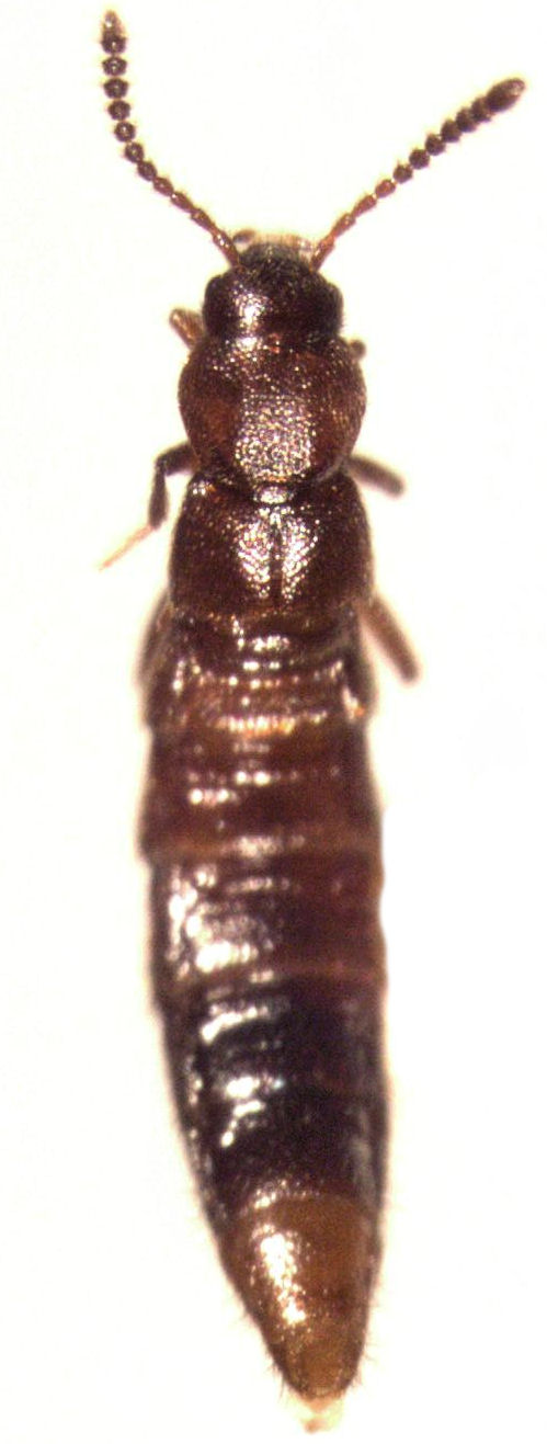 adult female Leptusa antarctica, length about 5 mm. Adams I., pitfall trap W1 (50°52′6.0″S 166°1′14″E / 50.86833°S 166.02056°E), tussock in white-headed petrel colony, just above bush line. Auckland Islands, New Zealand, 22 Jan-5 Feb 2011, G. Elliott, K. Walker